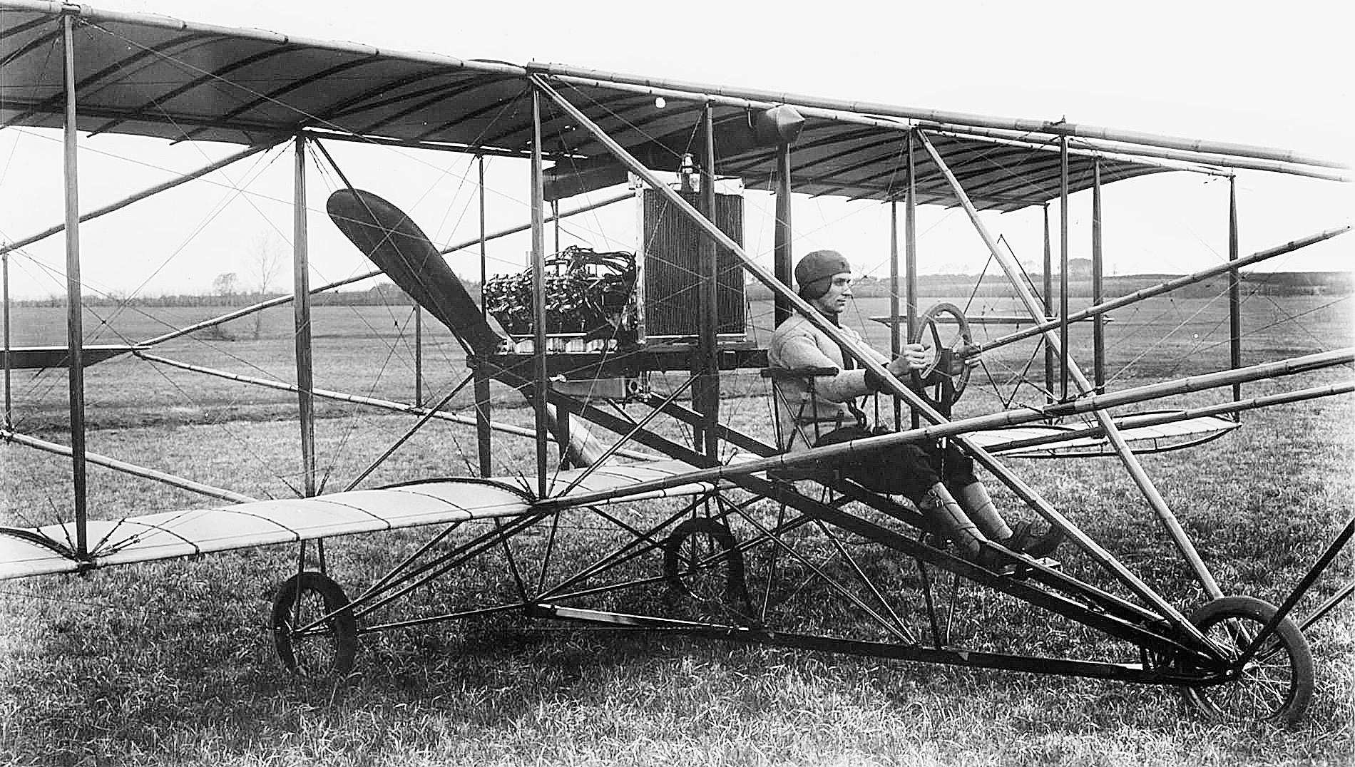 Early aviator Albin K. Longren (1882–1950).